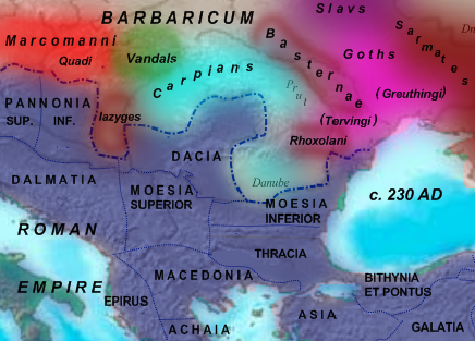 Created by Hxseek